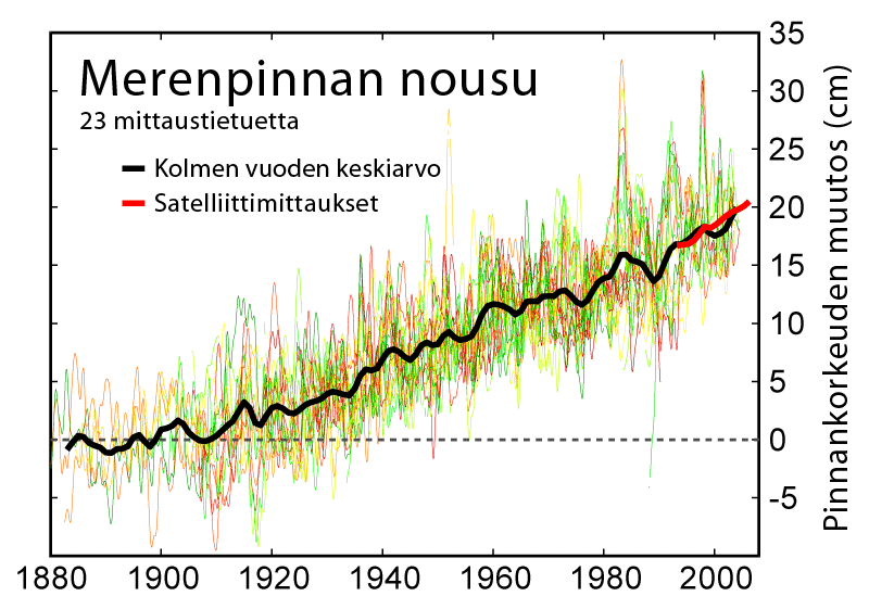 A Finnish version of a graph showing recent sea level rise.